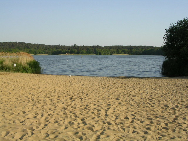 Frensham Great Pond Surrey's best beach